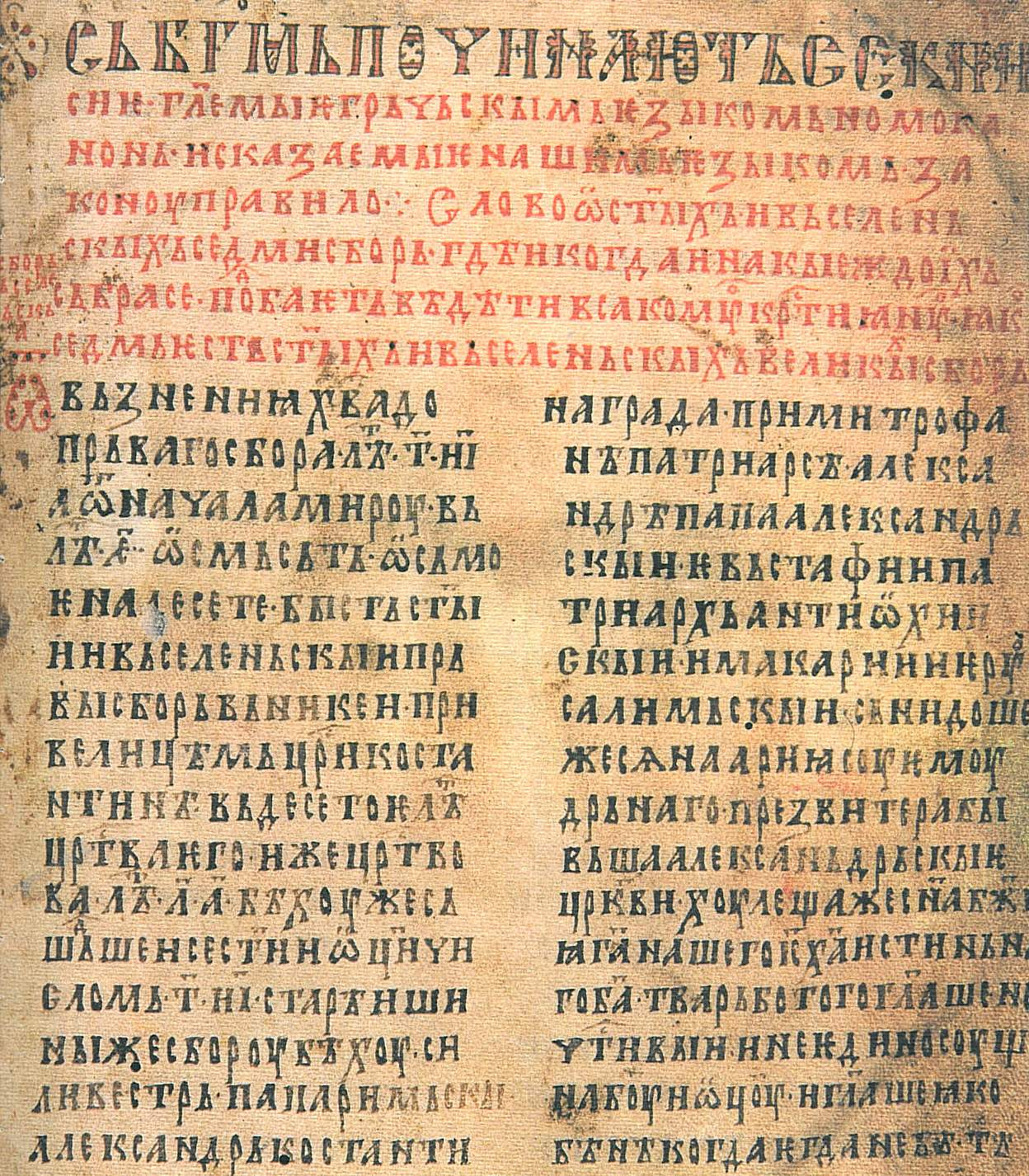 The oldest kept manuscript of St. Sava's Nomocanon from 1262, made in monastery of St. Archangel Michael in Ilovica near Tivat, Boka Kotorska, Montenegro